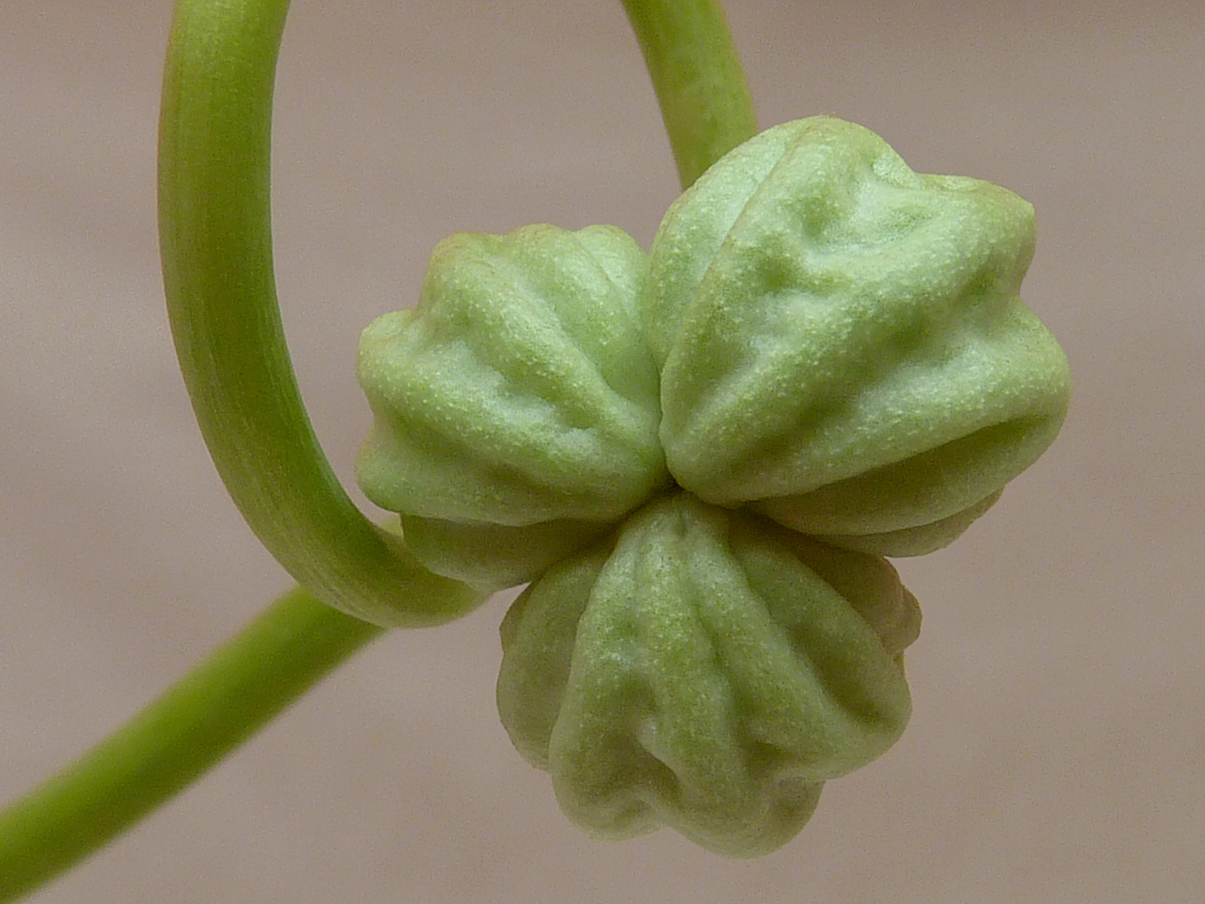 Tropaeolum majus fruit.